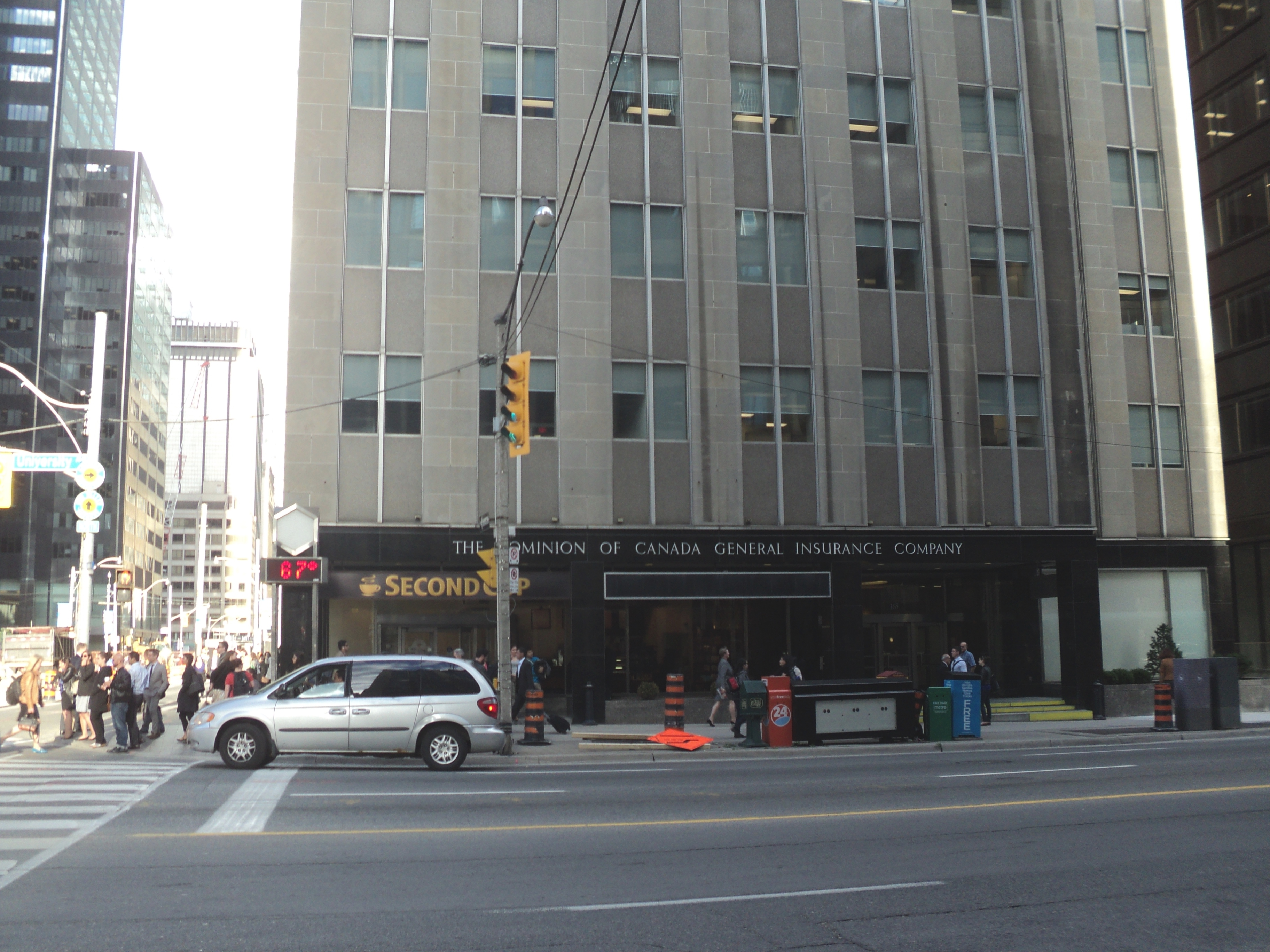 The Dominion General Insurance Co building along University Ave. in Toronto. Lightened just a bit with GIMP. Located at 165 University Ave.